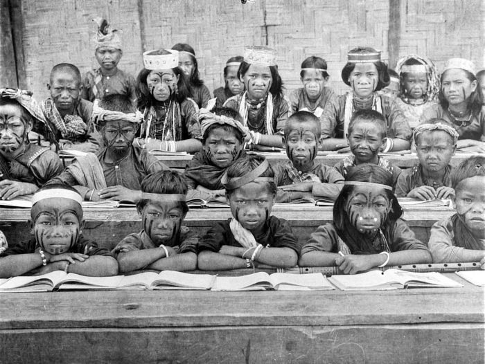 Children of the protestant missionary school in Poso, Sulawesi (c. Early 1900s)